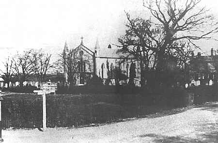 The original St John's Church in 1890 NB According to the usage on Malet_Lambert (revision of 23 May 2012) it is St. Johns before rebuilding/extension on Beverley Road/Cottingham Road/Clough Road in Kingston upon Hull, UK